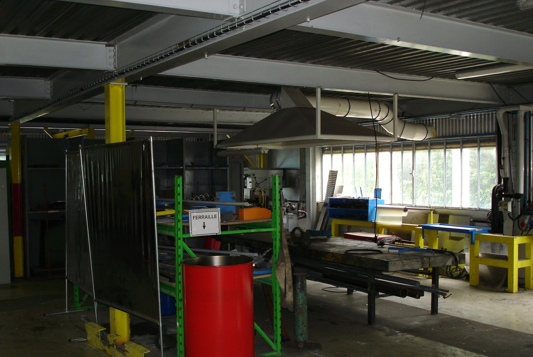 Mechanical workshop with a system to sucking up air over a metal workbench, drum for scrap waste, steel beams on the ceiling (metal rafter).